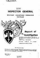 A report on ROK Marines' alleged atrocities including Phong Nhi massacre by US Army inspector general Colonel Robert Morehead Cook.[1][2]